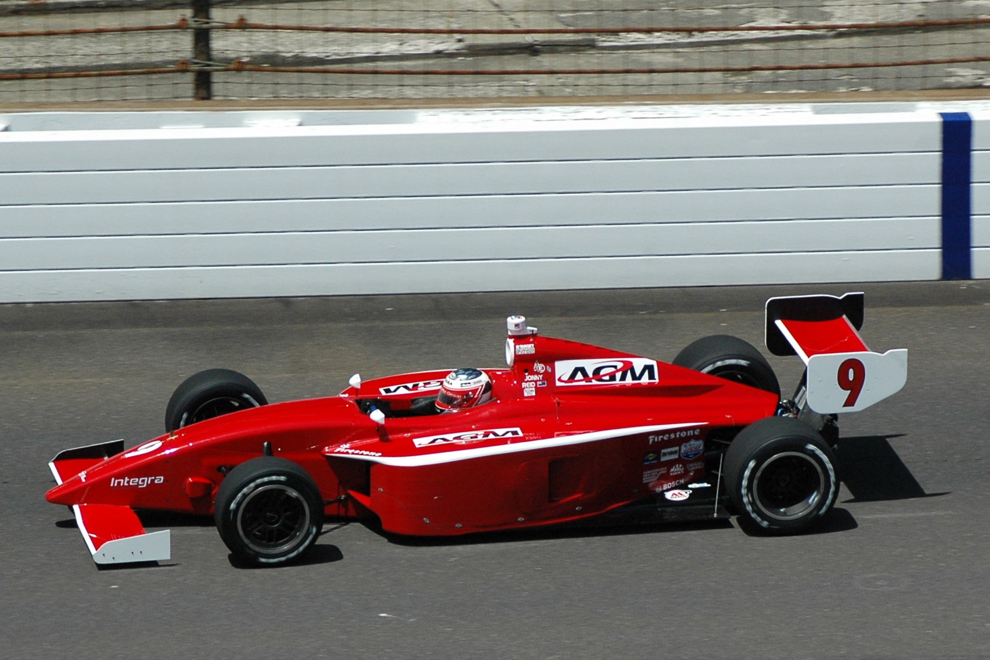 Jonny Reid driving in the 2008 Firestone Freedom 100 Indy Lights race